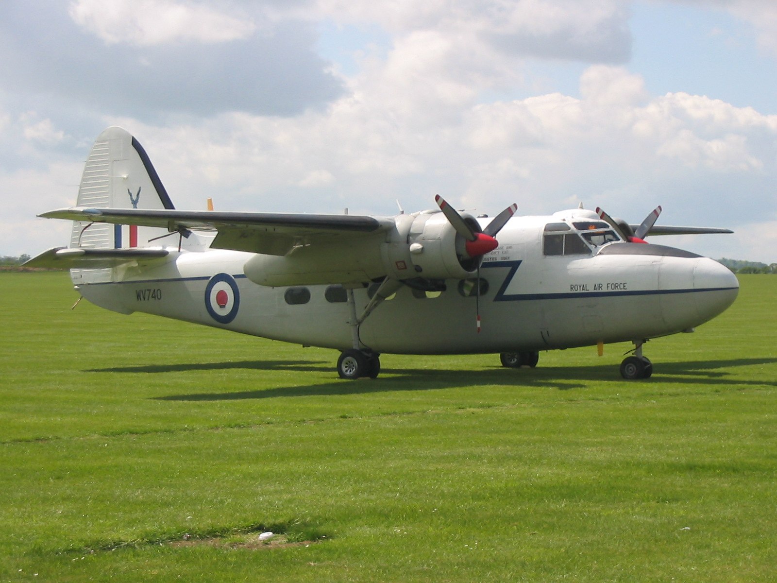 Percival Pembroke in Duxford